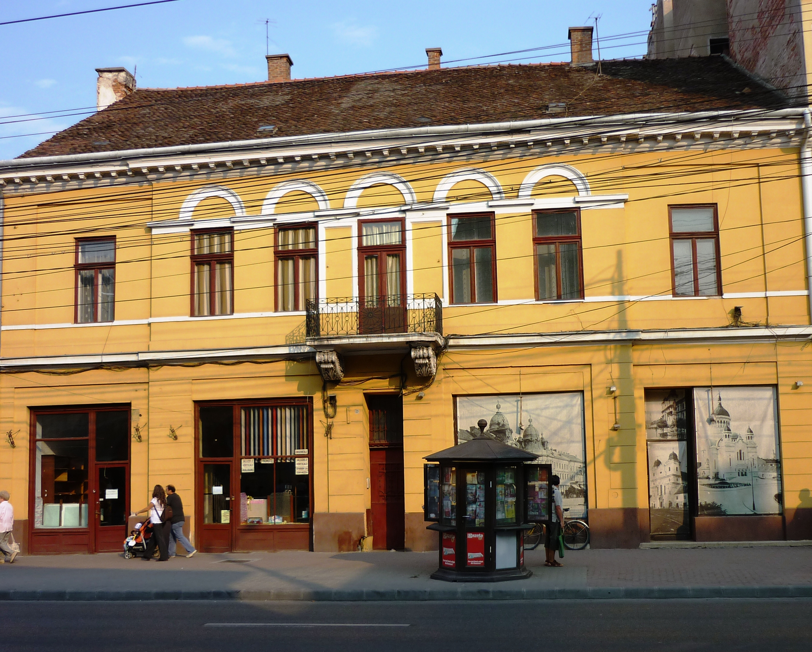 Cluj-Napoca, 12 Memorandumului Street, Romanian Casino